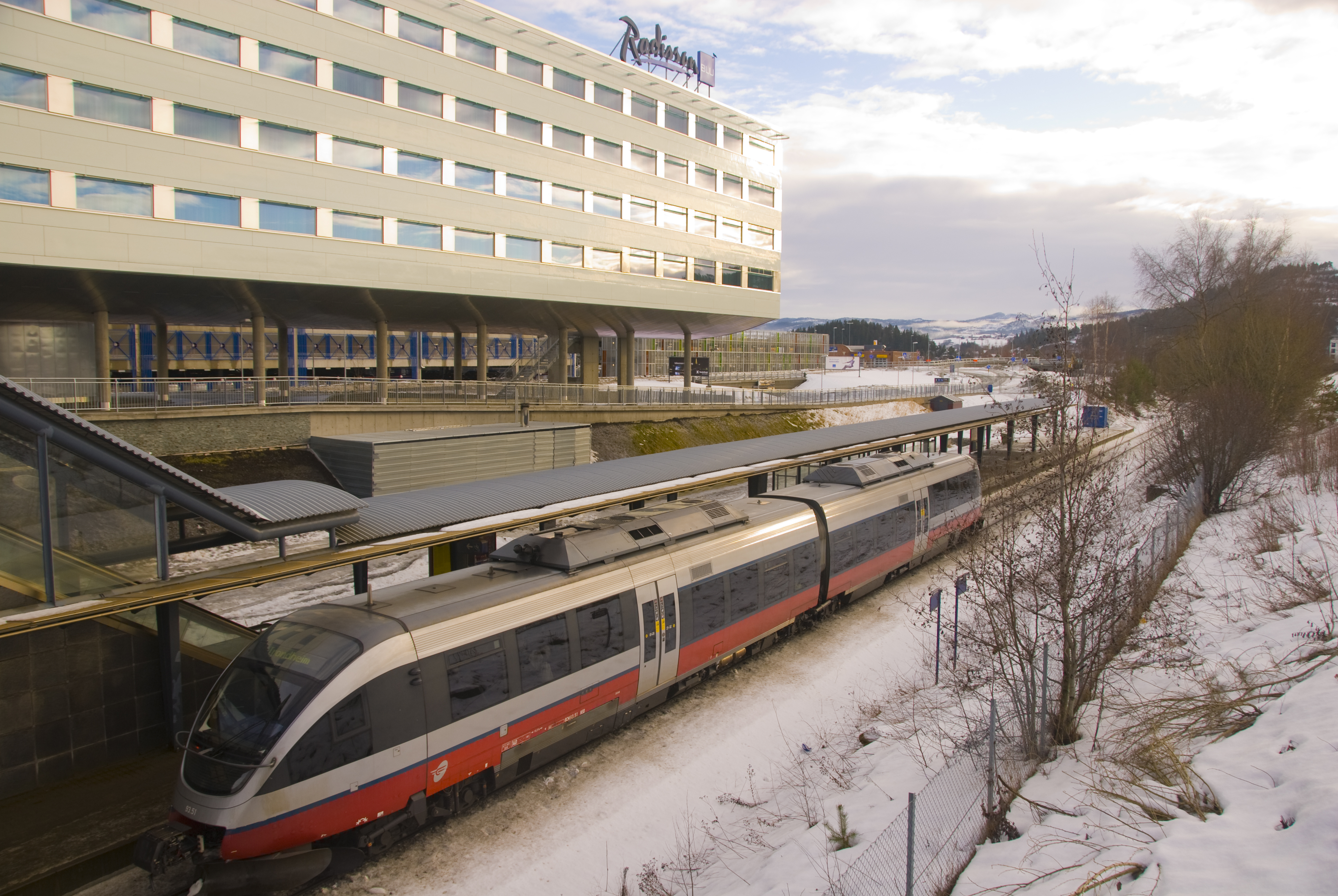 Norwegian State Railways Class 93 multiple unit at Trondheim Airport Station; Radisson Blu hotel in the background